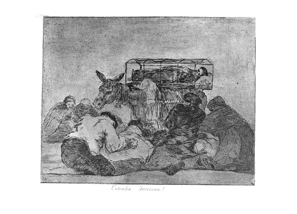 Plate 66Los Desatres de la Guerra is a set of 80 aquatint prints created by Francisco Goya in the 1810s.